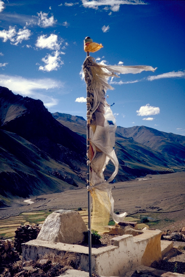 Prayer flag above the monastery (Gompa) of Tanze, in the Kurgiakh valley. The wind is believed to propagate the prayers printed on tissue.